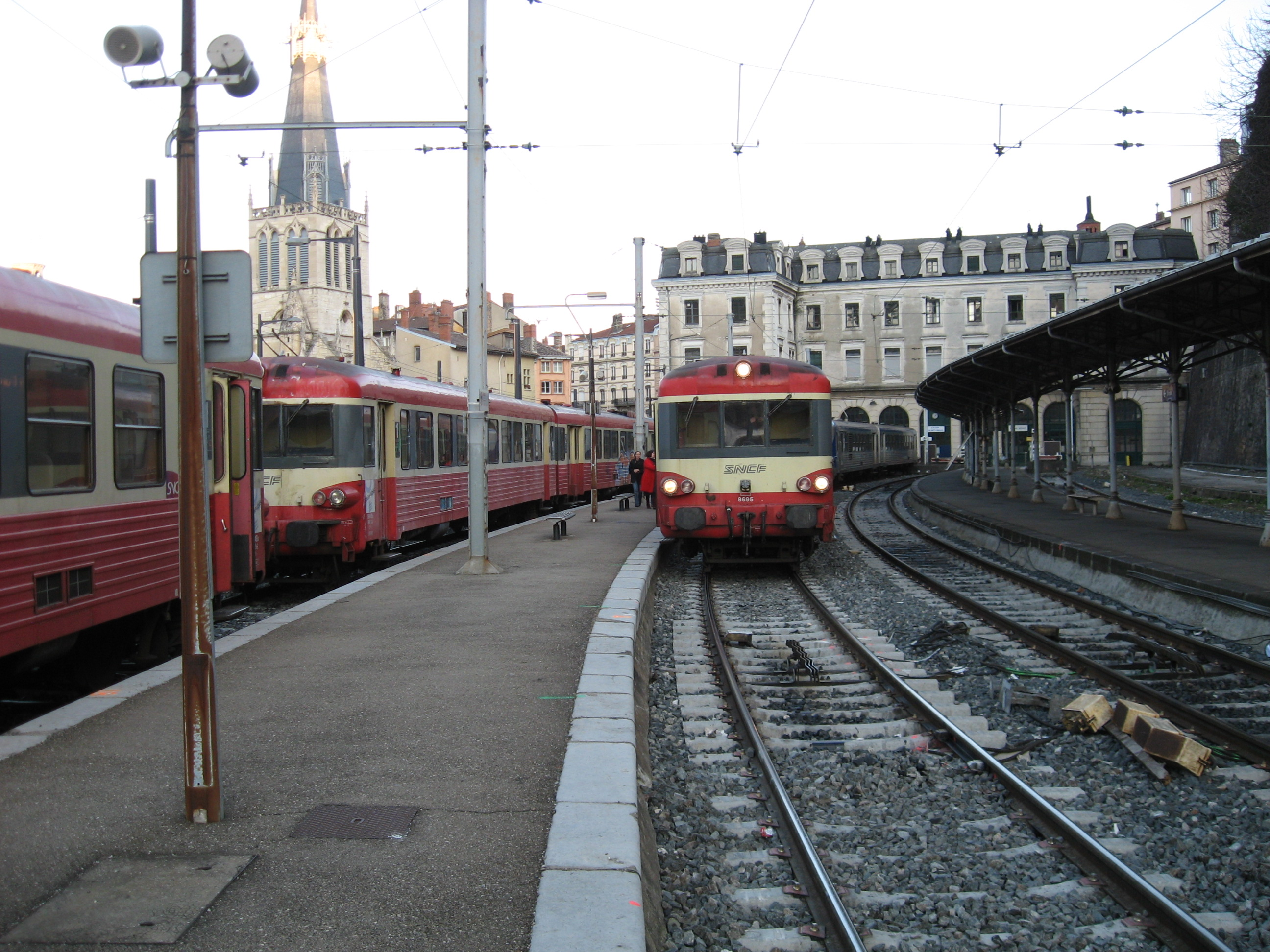 Sint-Paul Station with diesel multiple units